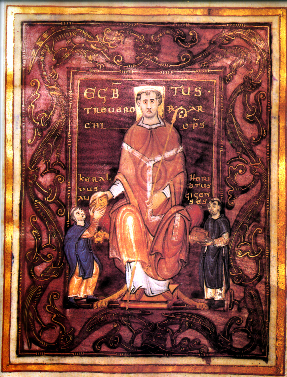 This is the dedicatory page (entitled "Egbertus") of the Codex Egberti, made circa 980 probably at Trier, where it resides in the Stadtbibliothek, Cod. 24, fol. 2.